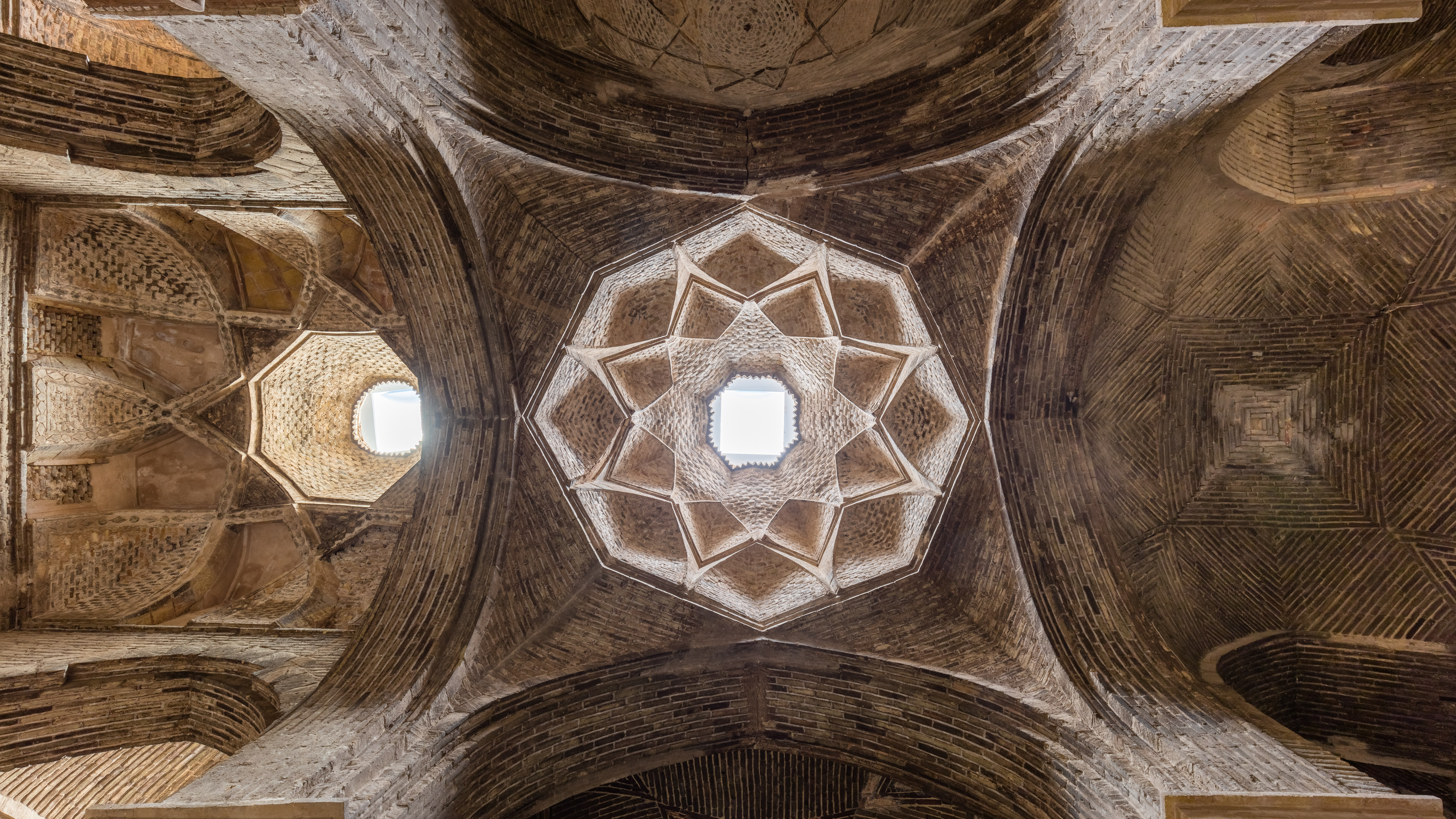 Dome in the interior of the Jameh Mosque of Isfahan, Isfahan, Iran. The mosque, a UNESCO World Heritage site, is one of the oldest still standing buildings in Iran and it has been continuously changed its architecture since it was erected in 771 until the 20th century.